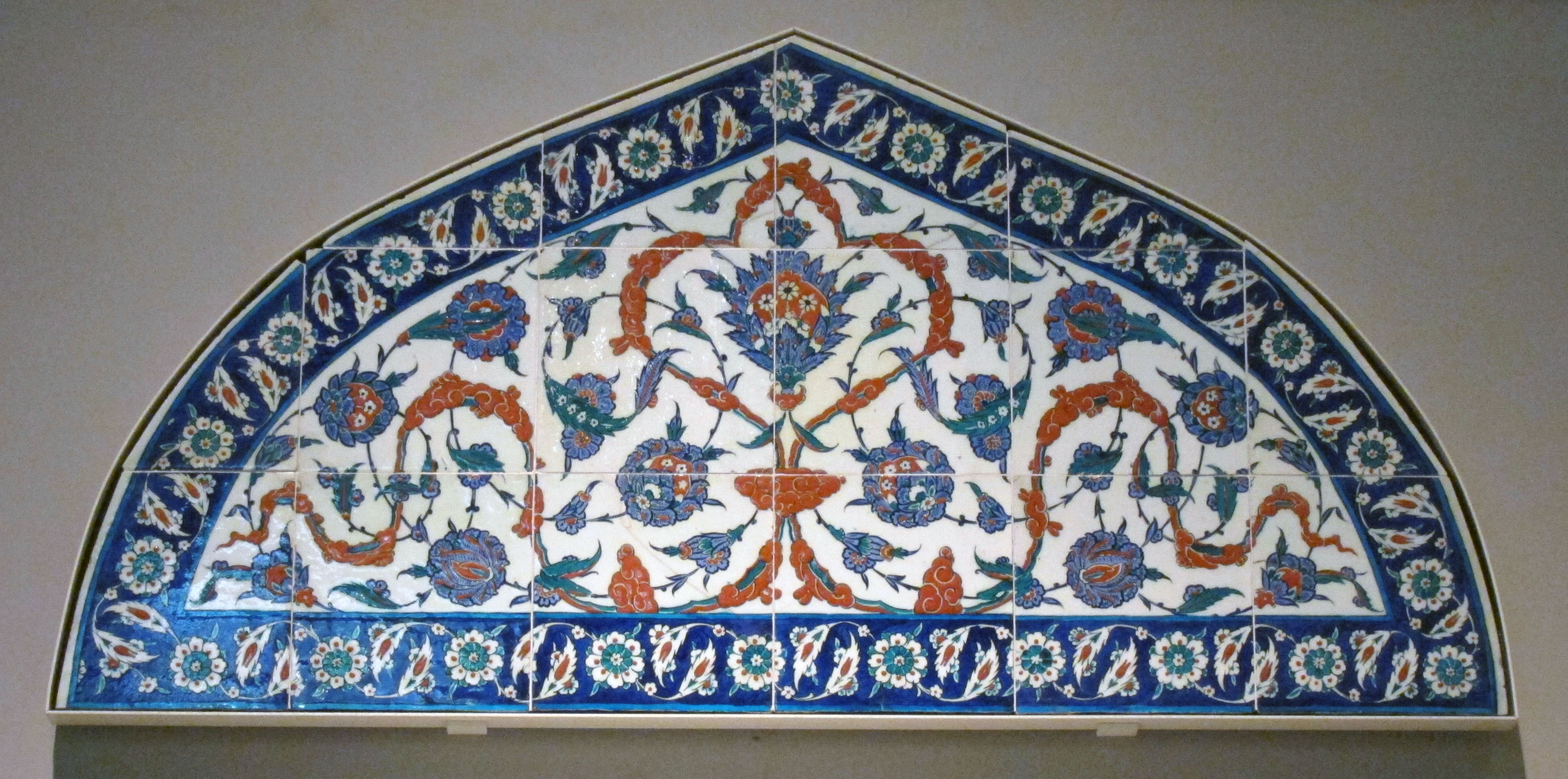 Tiled lunette panel that may have come from the Piyale Pasha Mosque in Istanbul. The tiles were made in Iznik.